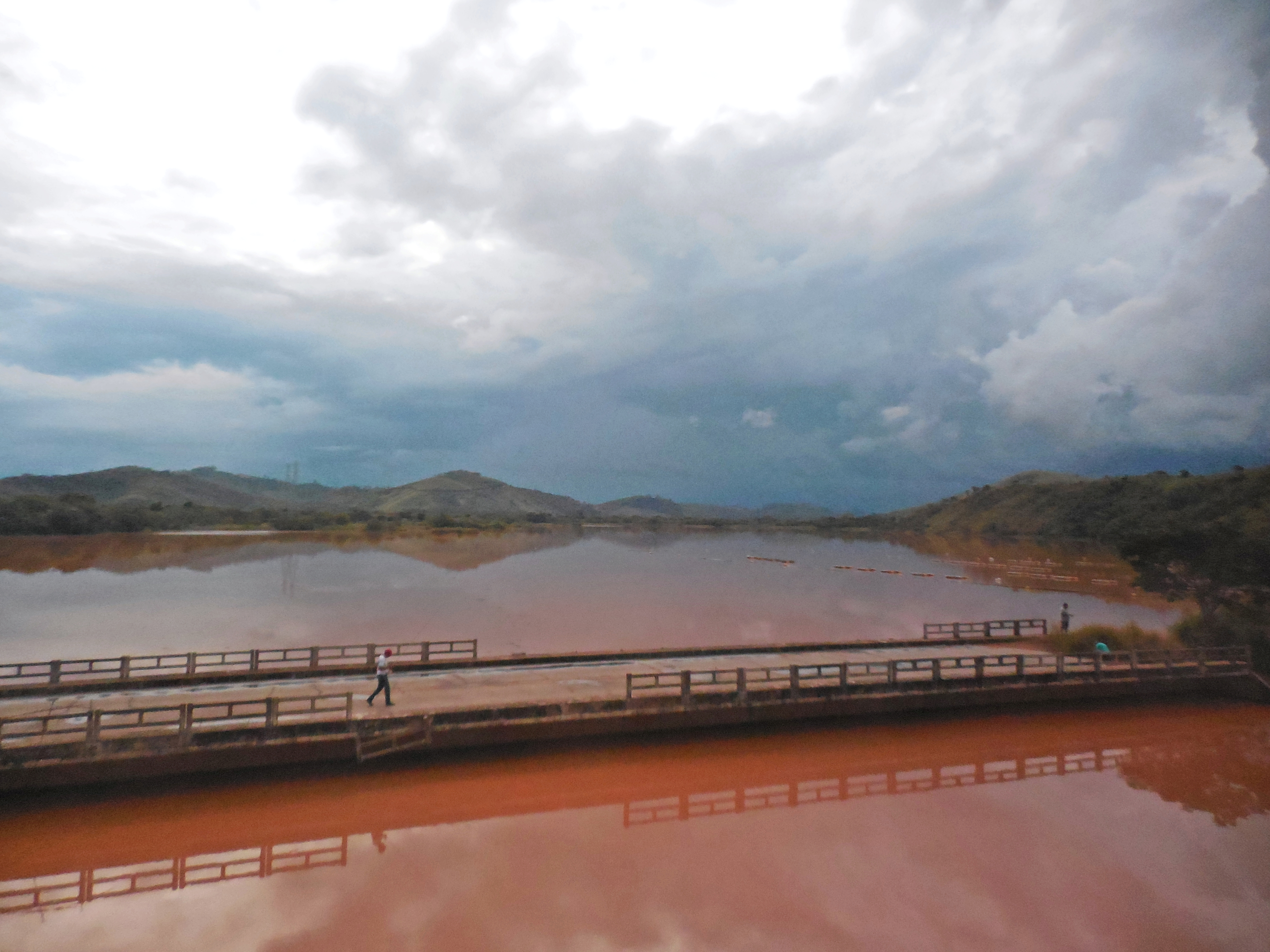 Flooded stretch of the Corrente Grande River in the lake of the Baguari Dam, between Periquito and Governador Valadares, Minas Gerais, Brazil.